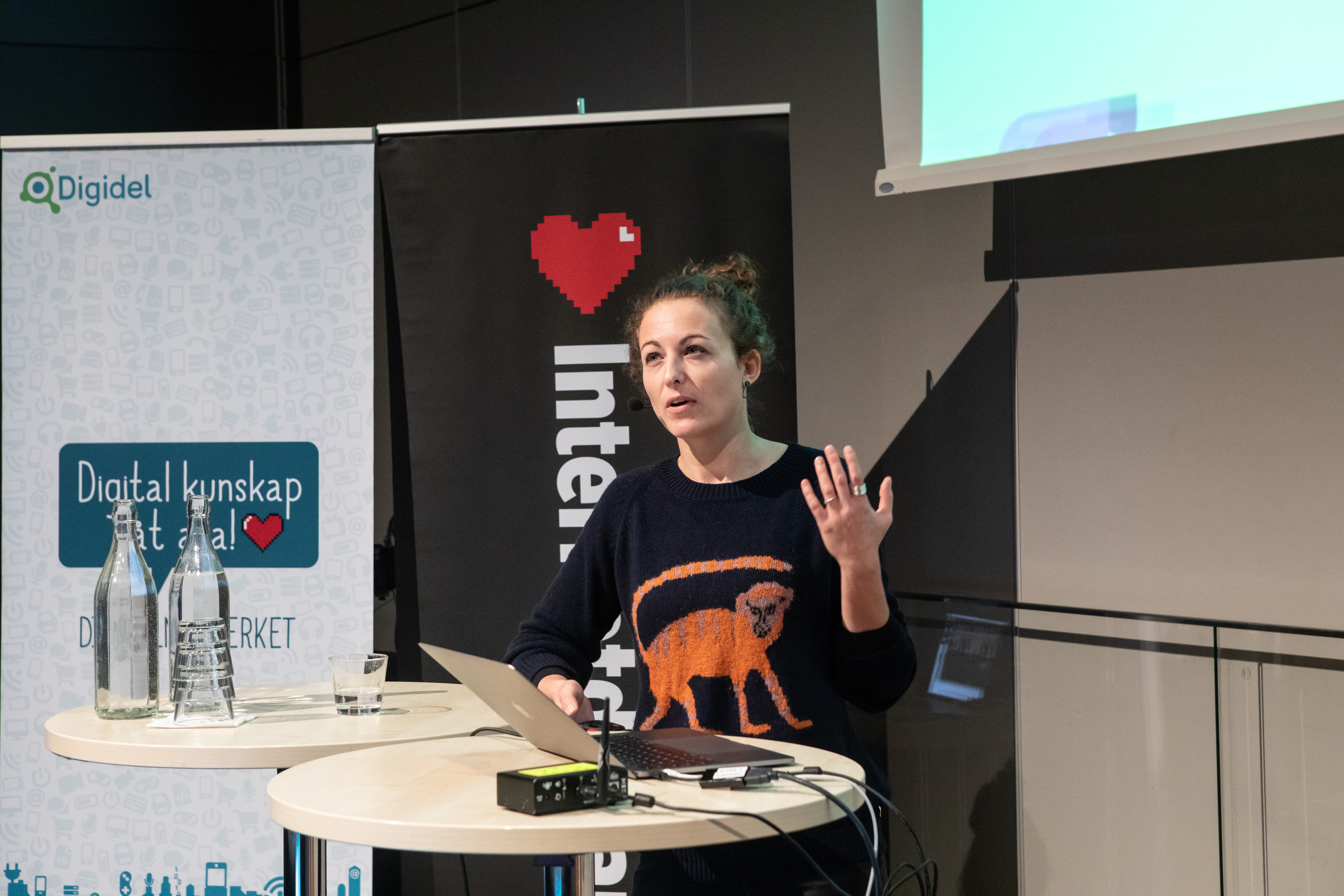 Patrizia Mosca from Kurzgesagt speaks at the Internetdays in Stockholm, 2018.